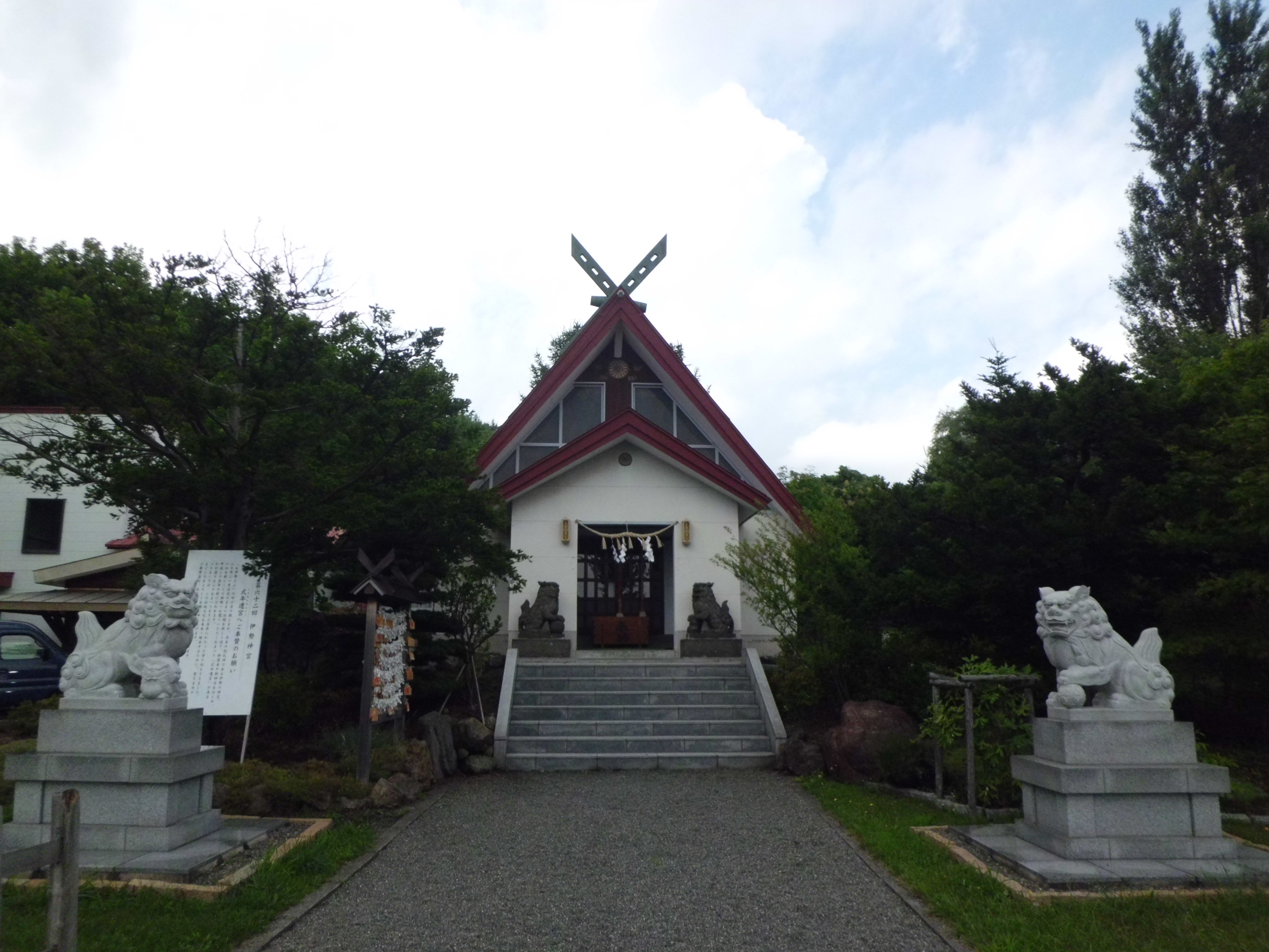 Kamiteine Shrine in Nishi-ku, Sapporo city, Hokkaido, Japan.